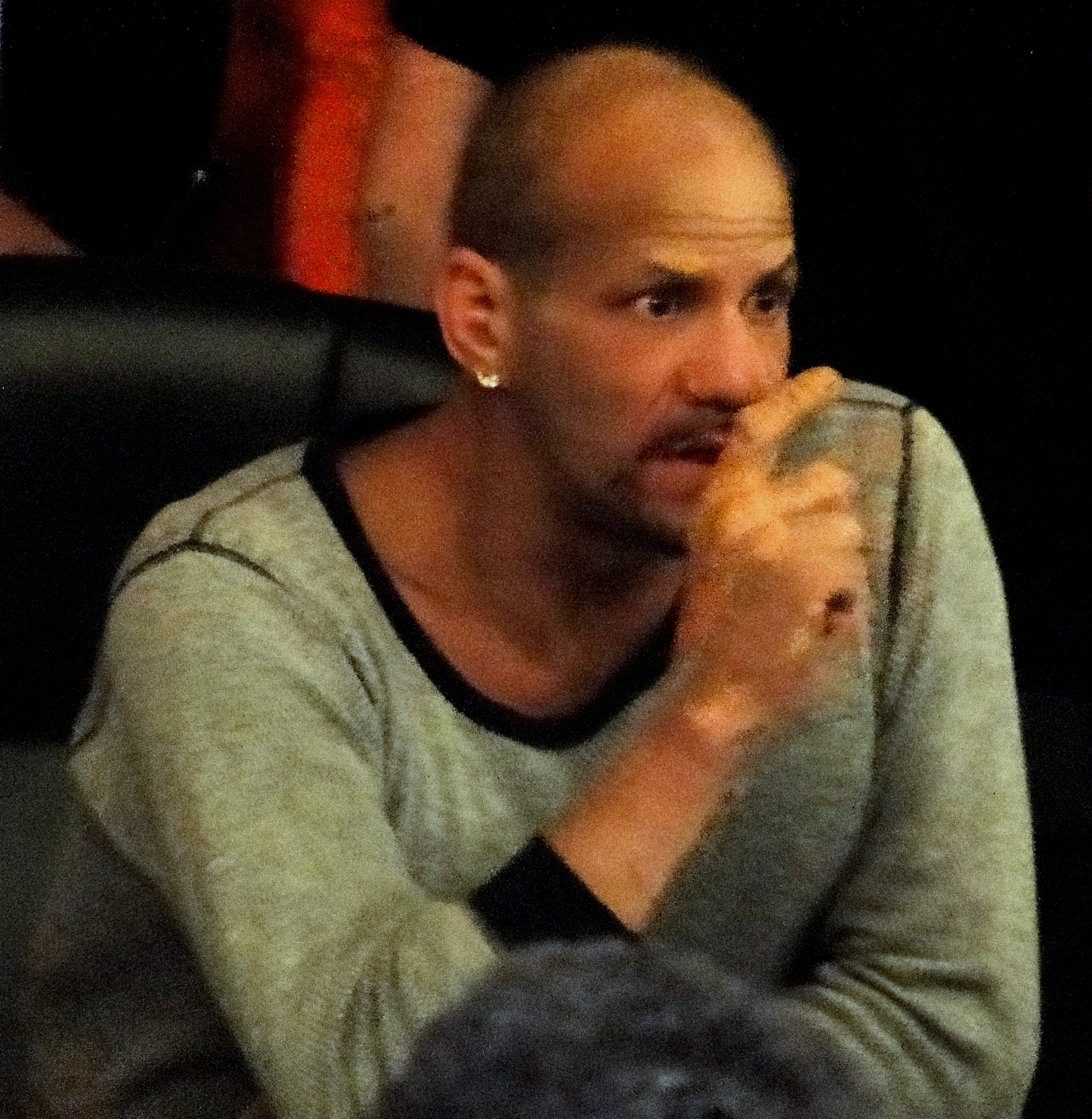 American boxer Tommy Morrison during the Chiller Theatre Spring Expo 2011 at Hilton Parsippany in Parsippany, New Jersey, United States, on April 30, 2011. Note that Morrison's appearance is greatly changed from his early days as a boxer, when he had "flowing blond hair" (South China Morning Post). See, for example, an ESPN article with another photo from this event.